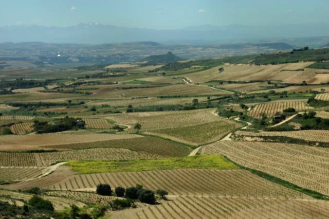 vineyards of the Rioja region in Spain